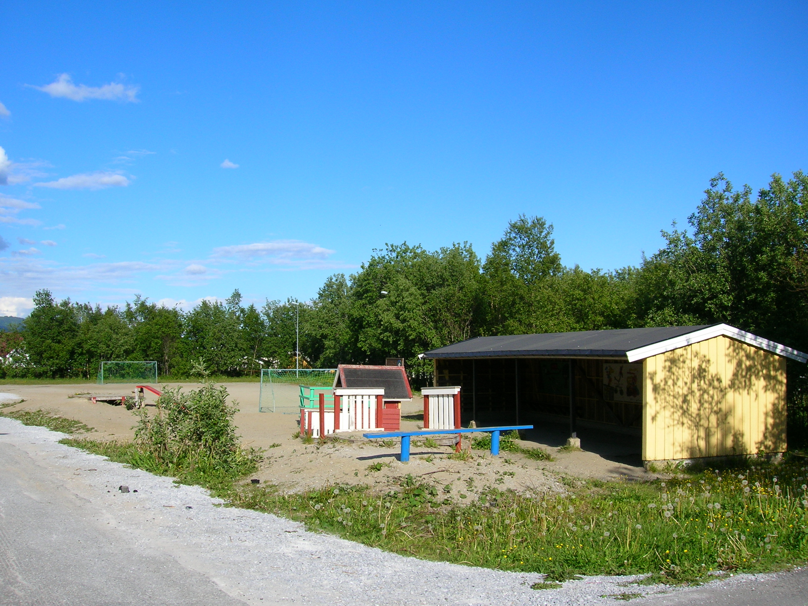 The Primary School at Alterneset in Rana, Nordland, Norway. Photo June 21, 2007 with a Nikon Coolpix 5600 5,1 Megapixel camera.